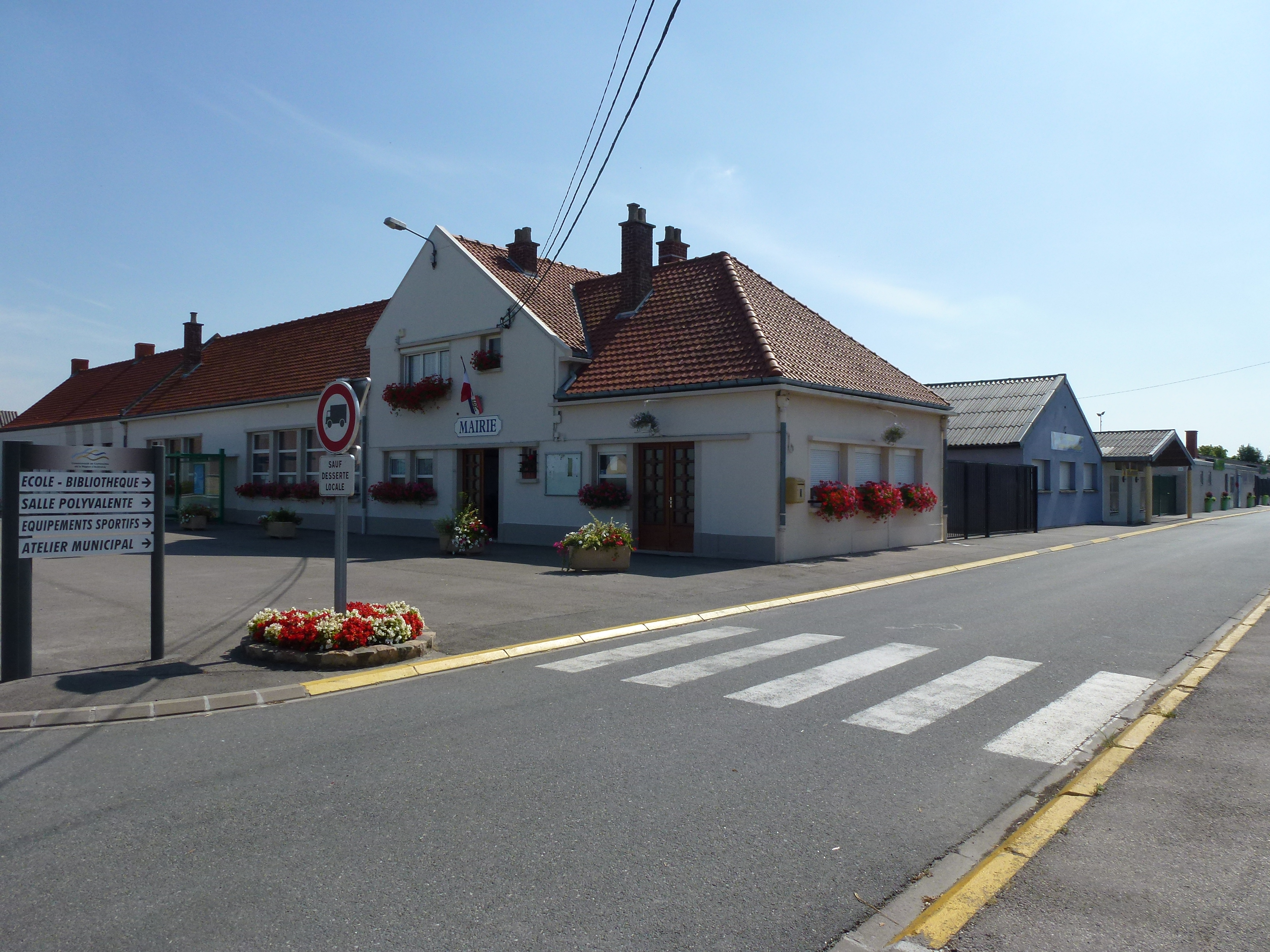 Saint-Omer-Capelle (Pas-de-Calais) mairie